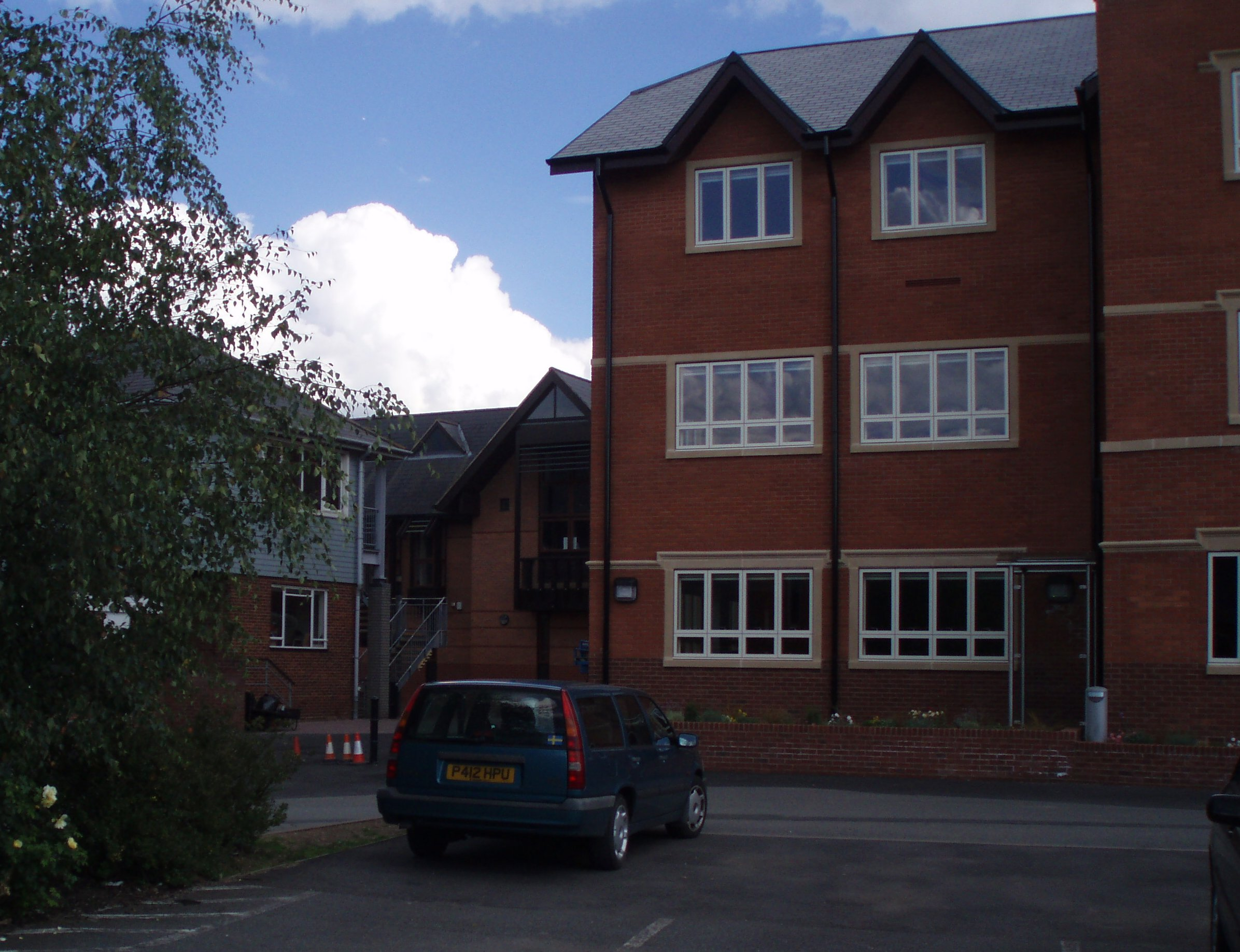 The new Science Centre, Warwick School, Warwick, England